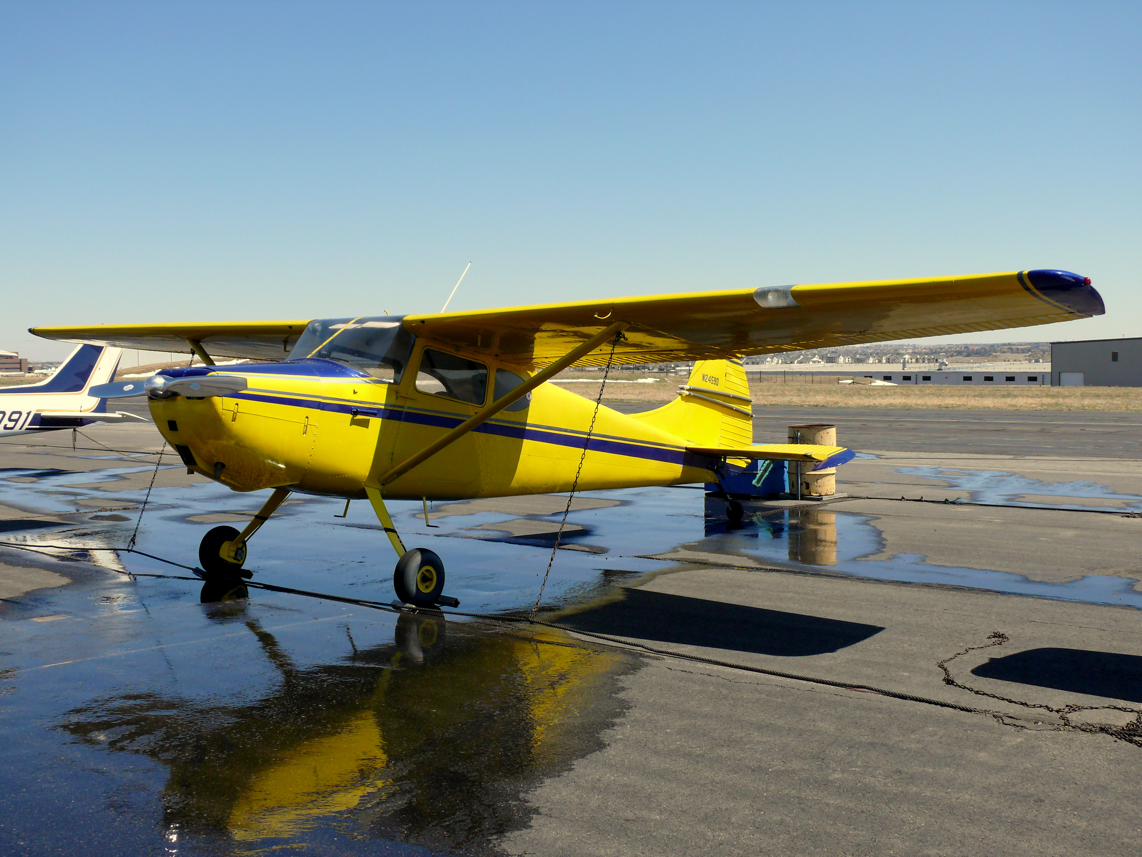 Photographed April 13, 2008 at Centennial Airport. Use it however you want, just don't say the photo is yours :)